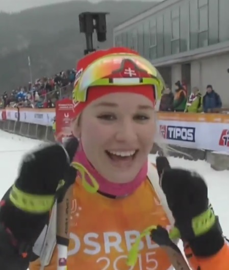 Paulina Fialková at the 2015 Winter Universiade